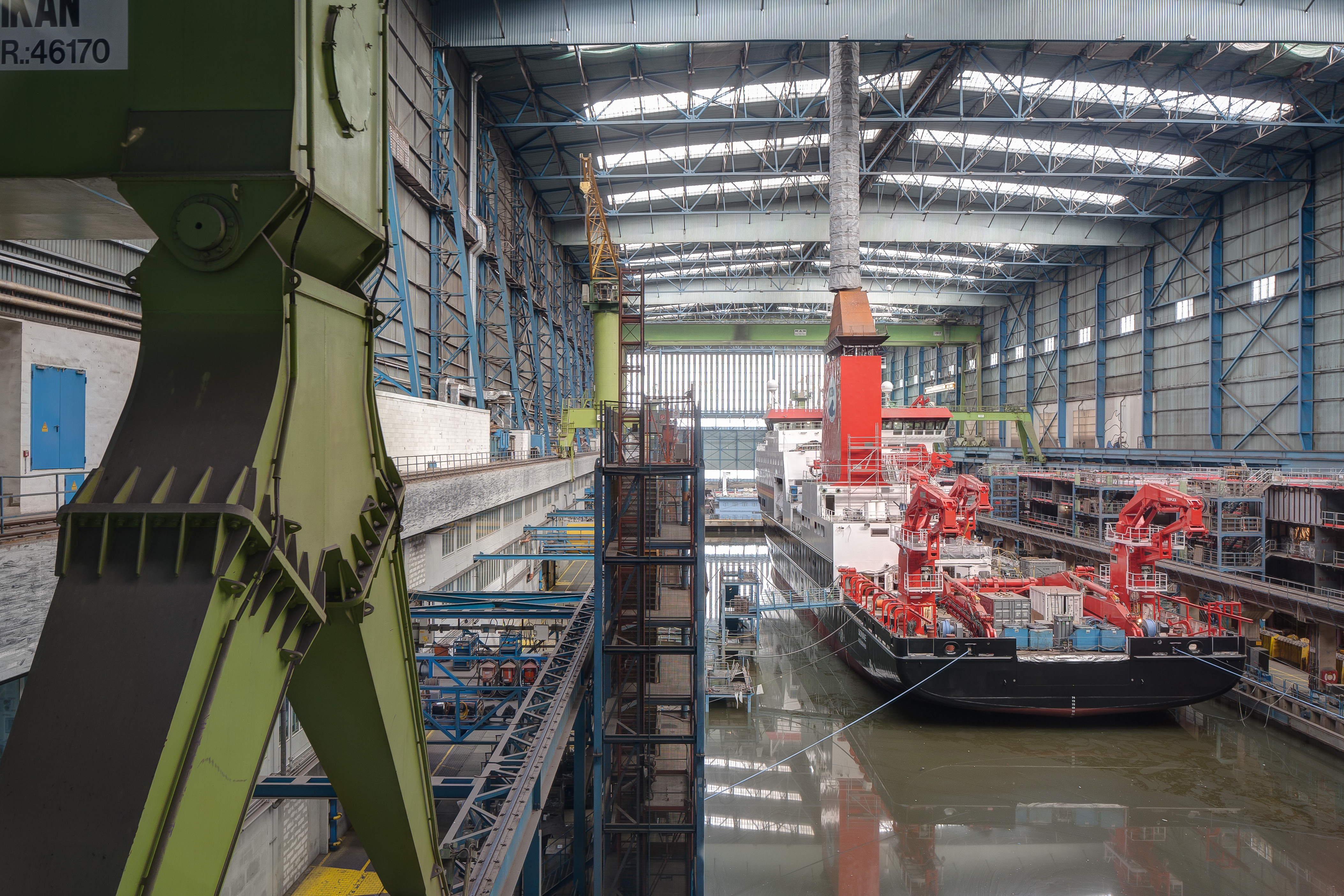 The older of two fabric halls at the Meyer shipyard in Papenburg, Germany. Visible in the middle is the new research ship "Sonne".